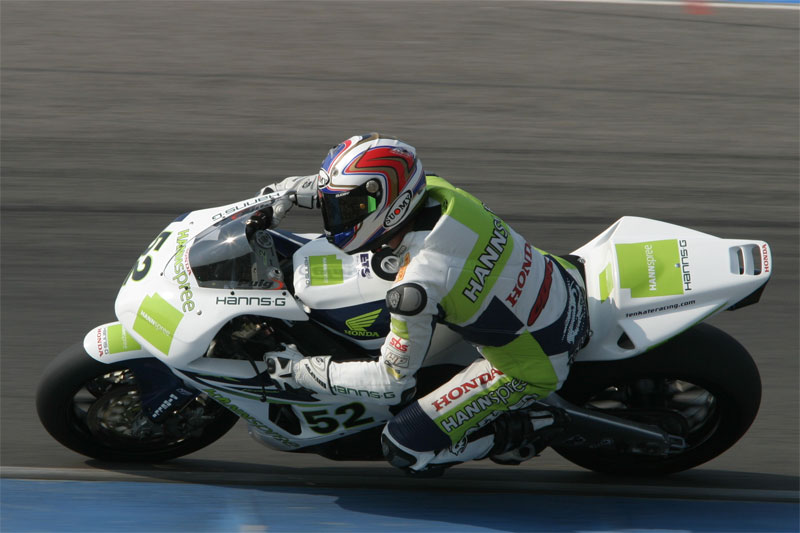 James Toseland at WK superbike 2007 in Assen Netherlands